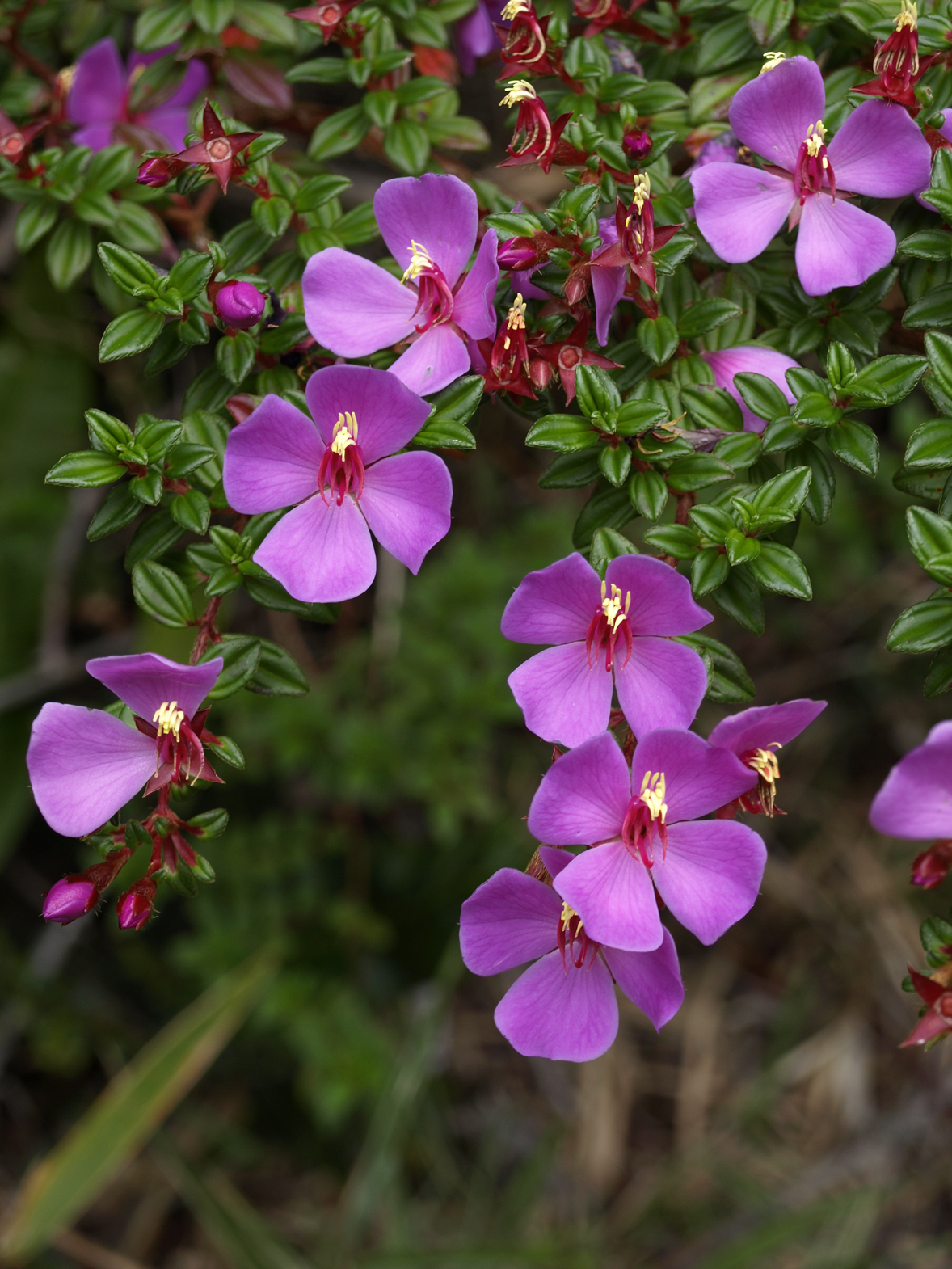 Poas Volcano, Costa Rica